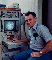 Gerald Leroy Fowler was a veteran of WWII, the lead technician in the Field Emission laboratory at the Pennsylvania State University and was a master technician in the Surface Science division at Sandia National Laboratories in Albuquerque, New Mexico. He was the author or co-authored of nine technical publications in refereed journals.